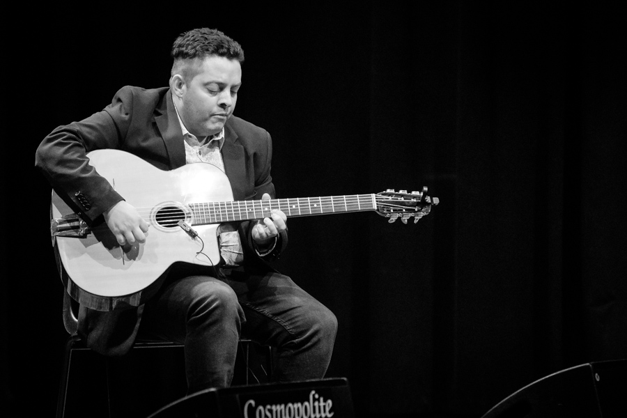 Nitcho Reinhardt with Nitcho Reinhardt Trio at Cosmopolite. The concert was part of Djangofestivalen and took place on 25. January 2019 in Oslo. Lineup:Nitcho Reinhardt (guitar)Benji Winterstein (rhytm guitar)Thierry Chanteloup (double bass)